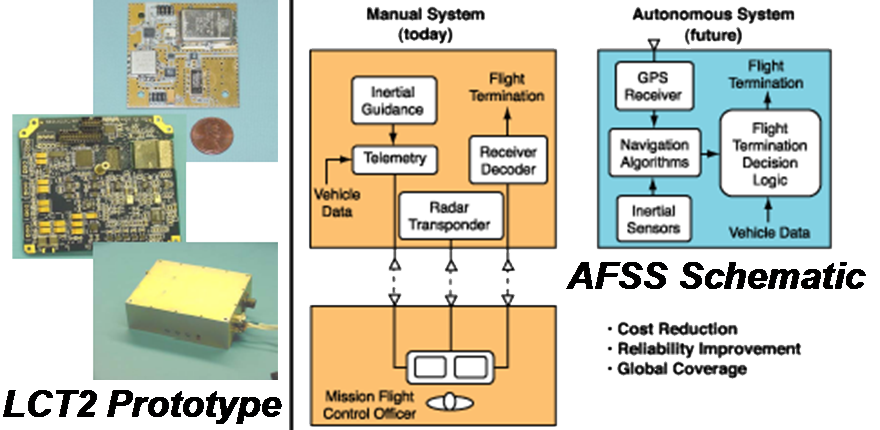 NASA Wallops Flight Facility Range Technologies